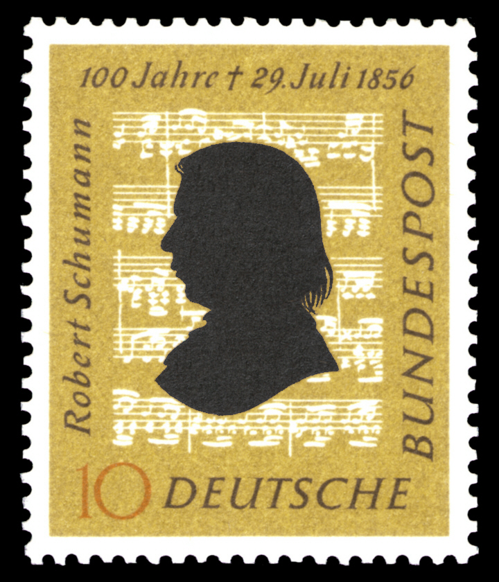 100th years of death of Robert Schumann (1810-1856)